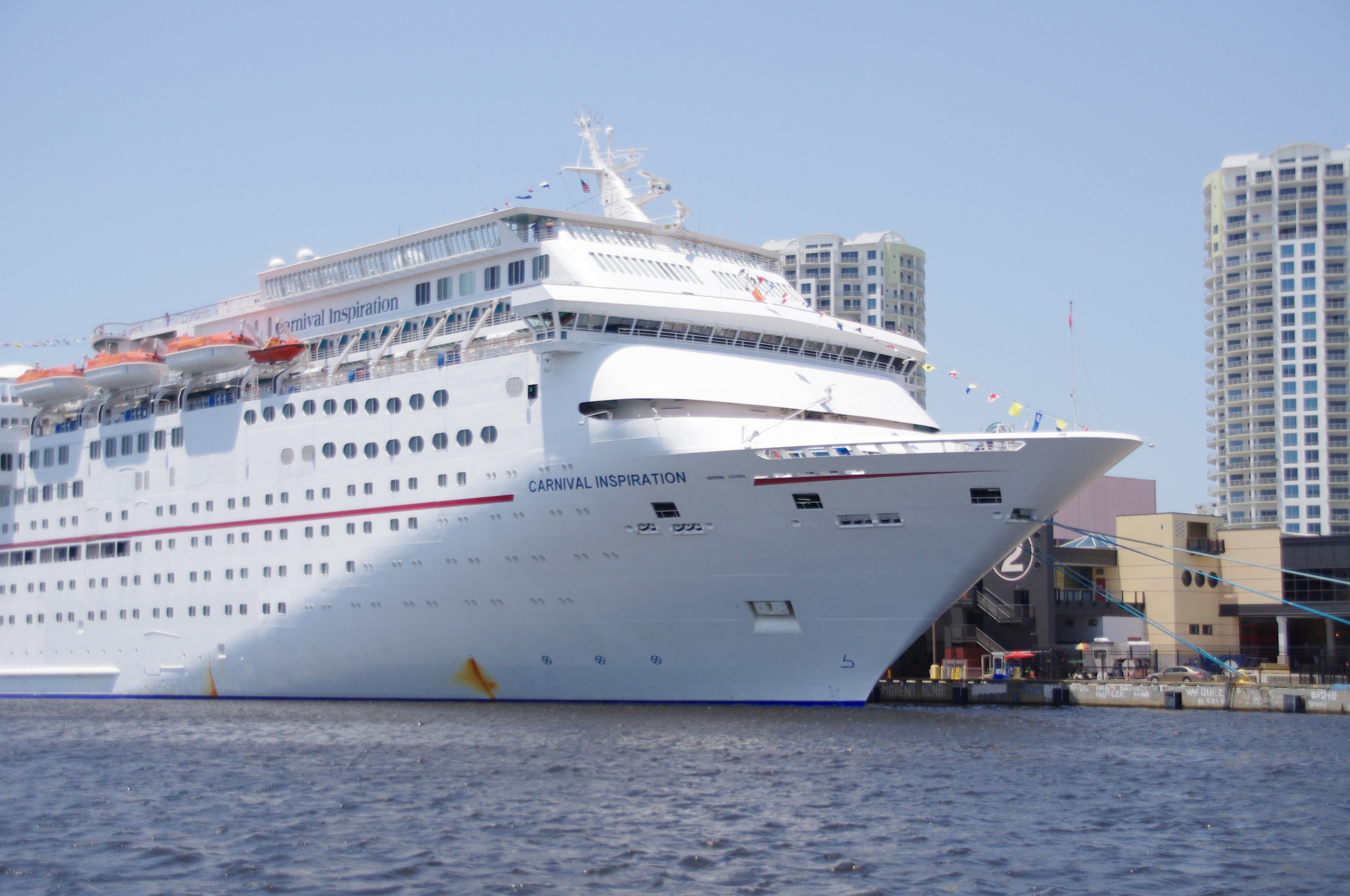 Docked at Port of Tampa